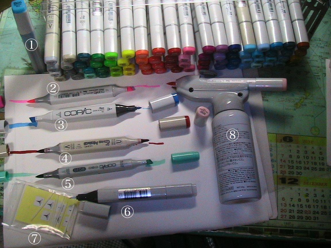 A Copic family.